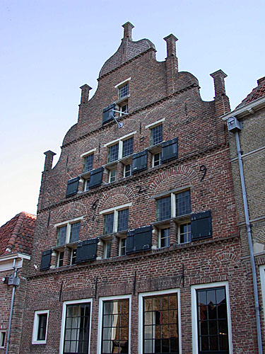 Gable of the "Gelders-Overijssels" type on house Den Lingen in Deventer